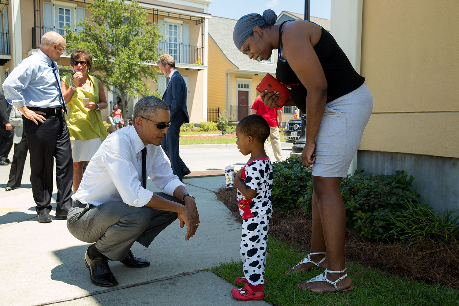 August 27, 2015 "Nice pajamas. The President greets residents in the New Faubourg Lafitte neighborhood of New Orleans. The area experienced significant flooding during Hurricane Katrina ten years ago, and much of it has been rebuilt." (Official White House Photo by Pete Souza)